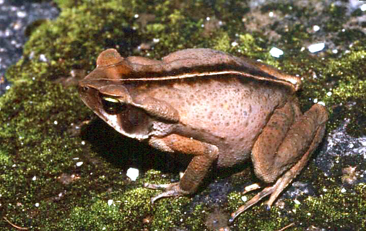 Bufo ornatus